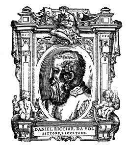 Illustratio from "Le Vite" by Giorgio Vasari, edition of 1568. For the artist portrayed see filename